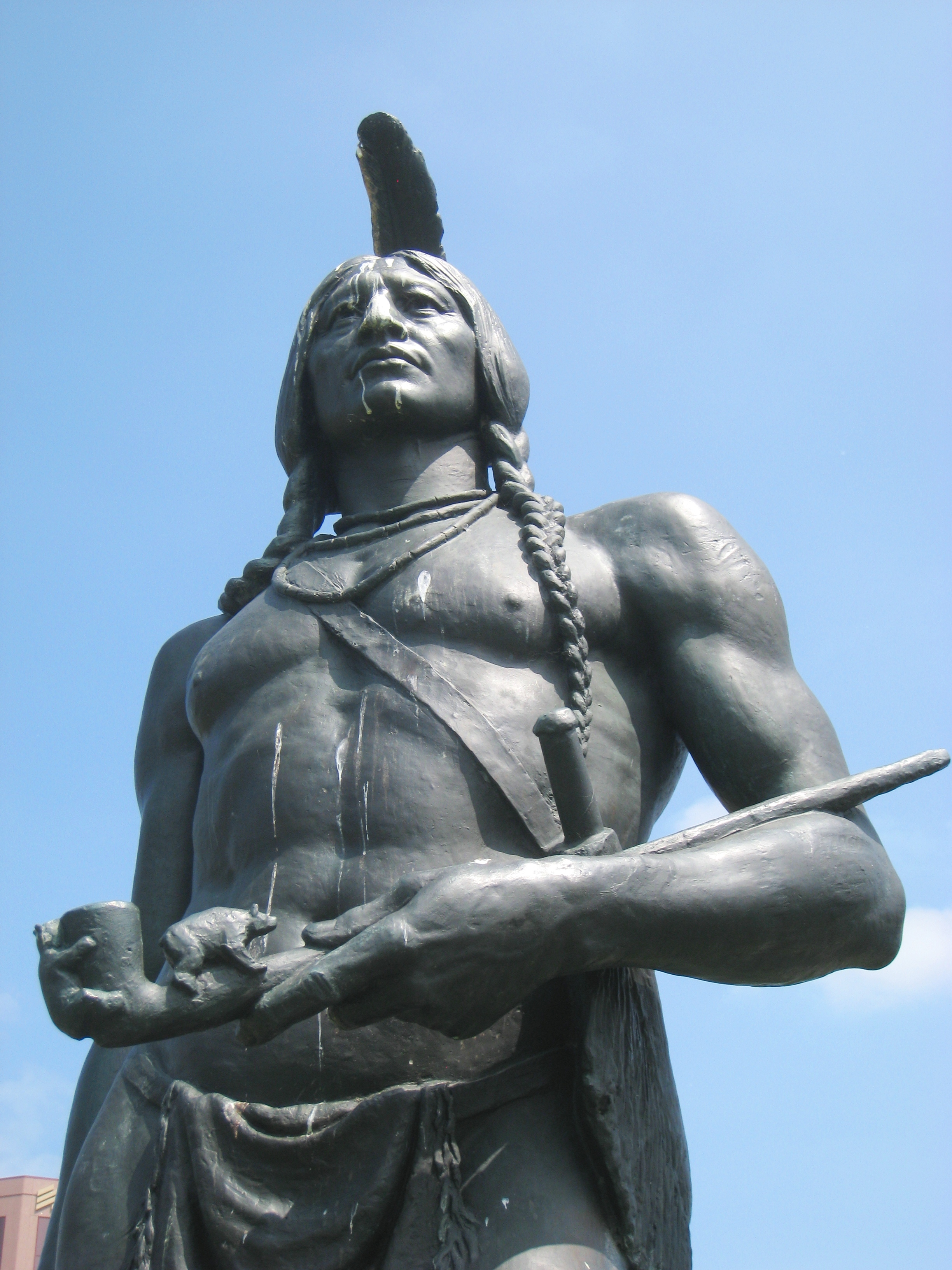 Sculpture entitled "Massasoit, Great Sachem of the Wampanoag, Friend and Protector of the Pilgrims, 1621". Near Country Club Plaza, Kansas City, Missouri, USA.